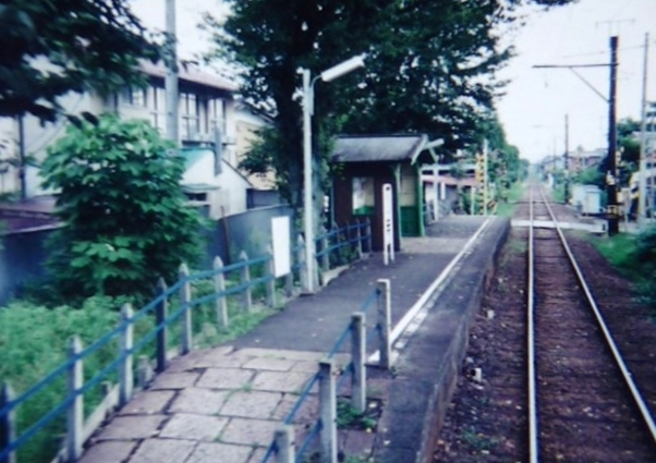 Meitetsu Tanigumi line Kurono-kitaguchi Station (2001)